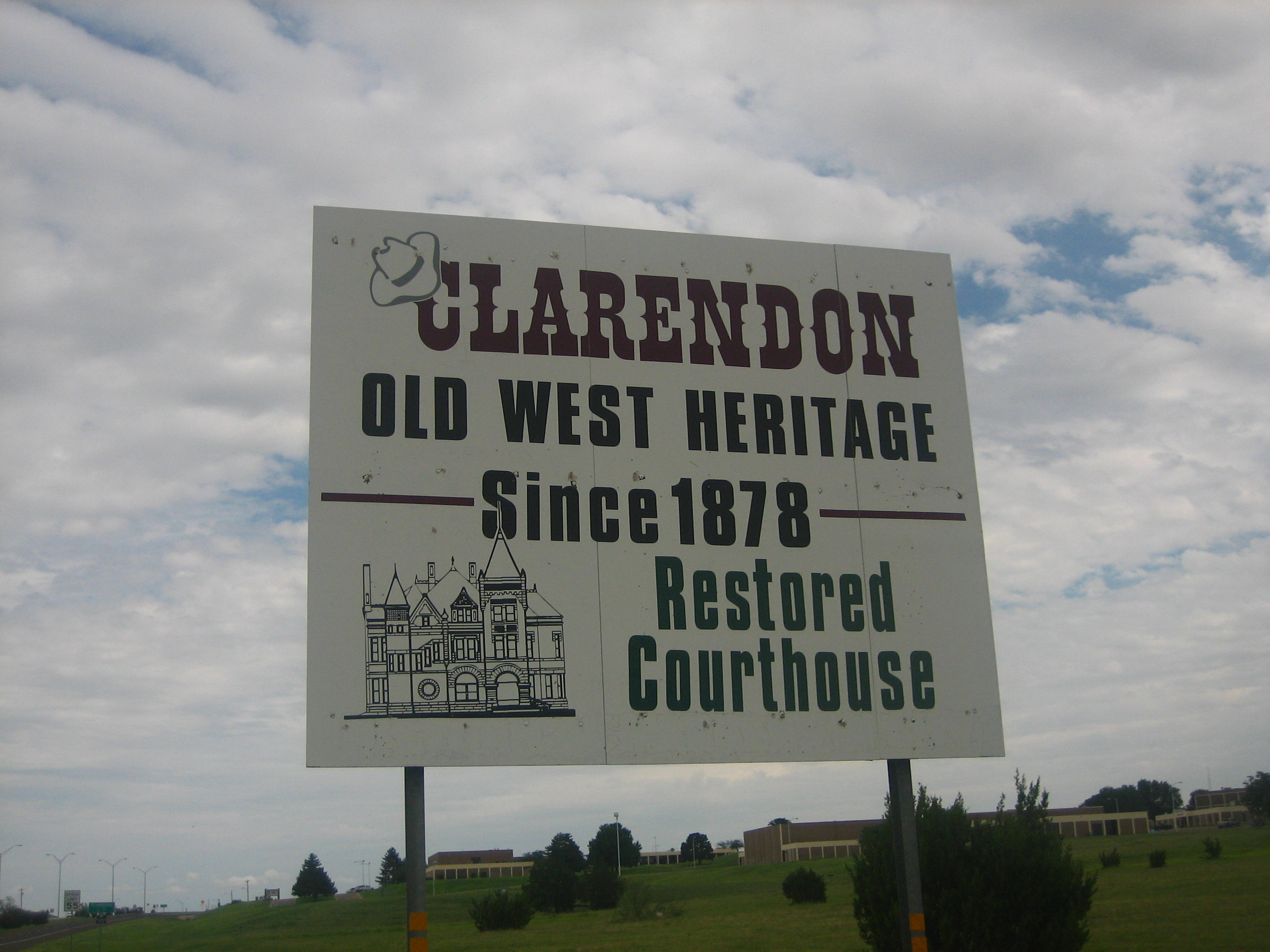 I took photo on July 15, 2008.Billy Hathorn (talk) 23:45, 22 July 2008 (UTC)